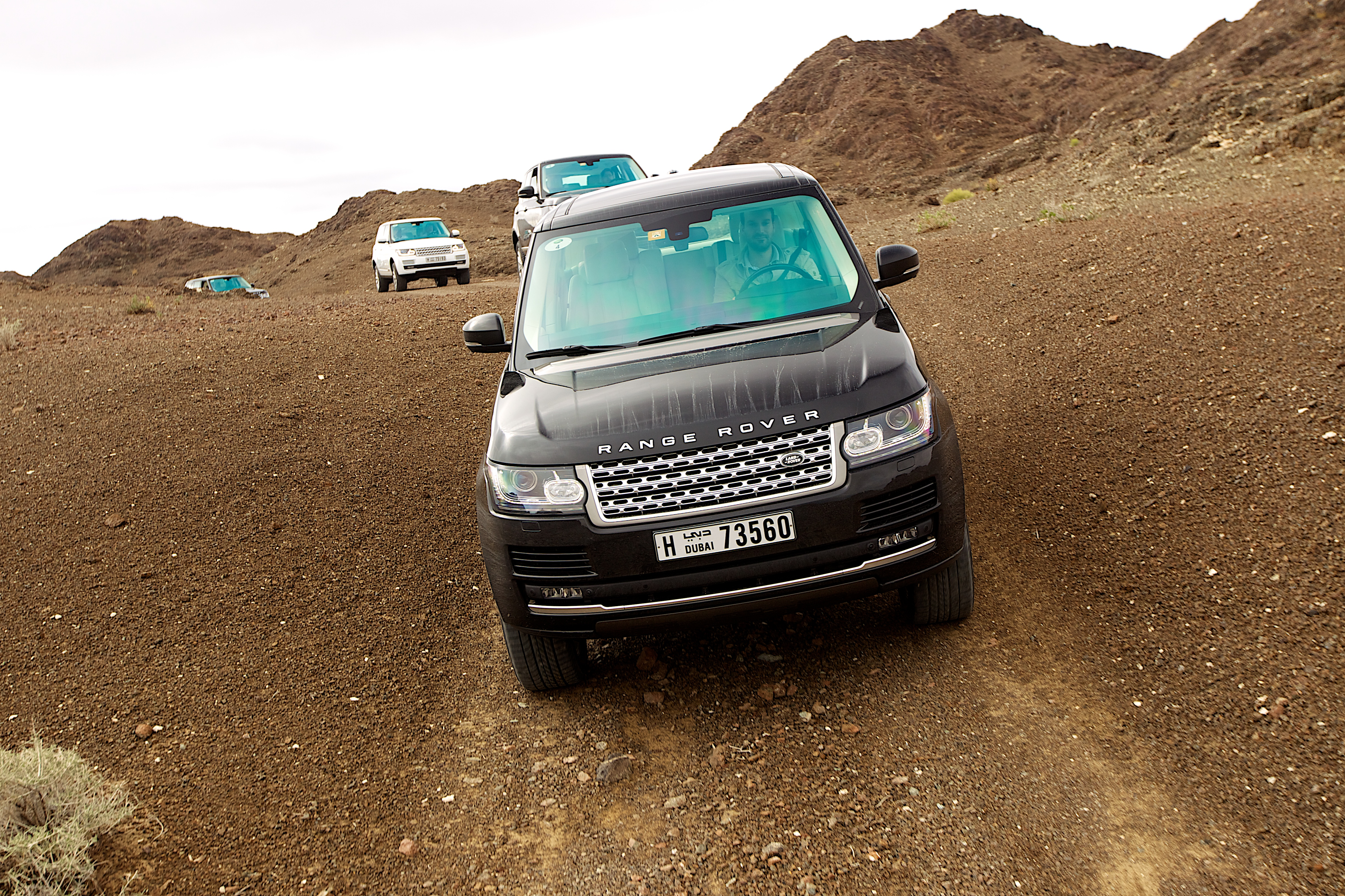 All-New Range Rover | Media Ride and Drive | Dubai, UAE